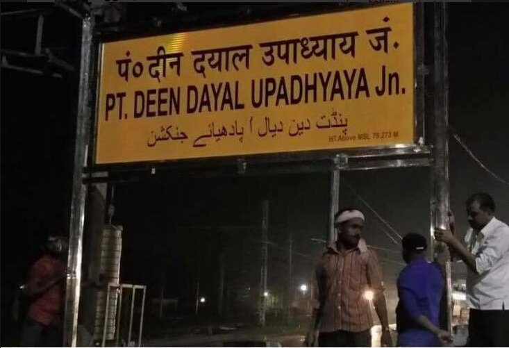 Deendayalmughalsaraijn